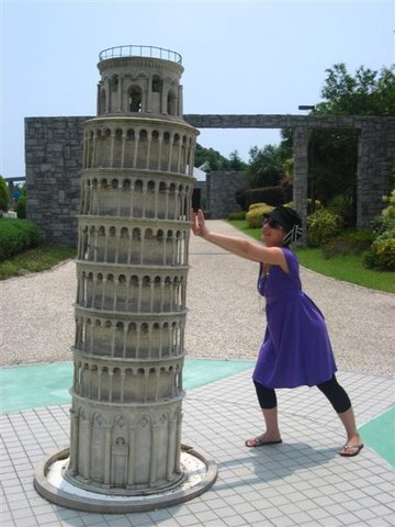 Me pushing the "Leaning Tower of Pisa" at the Onokoro amusement park on Awaji Island, Japan. (July 4, 2009).